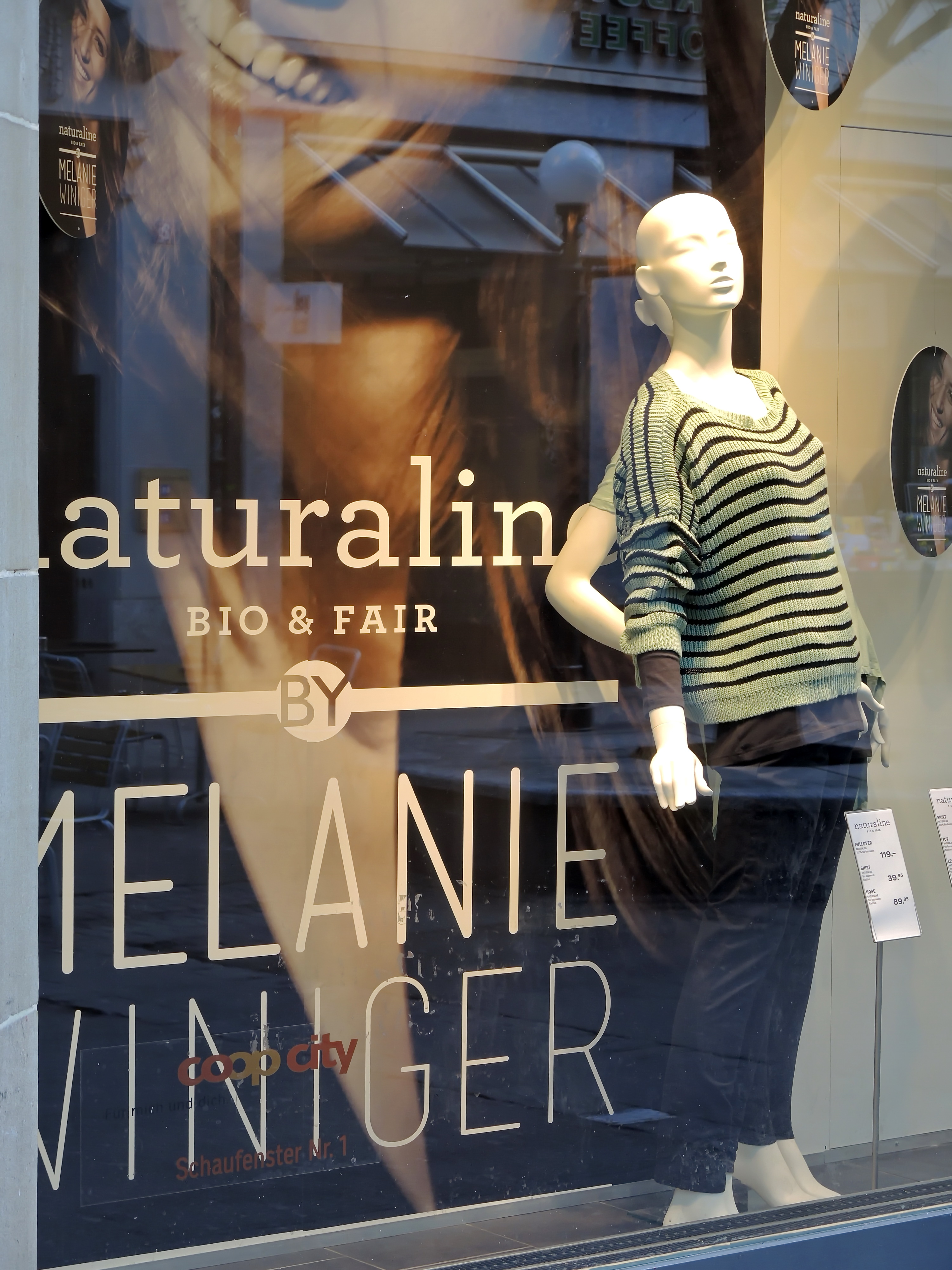 «Coop Naturaline by Melanie Winiger» - Coop City St. Annahof, Füsslistrasse in Zürich-City (Switzerland)